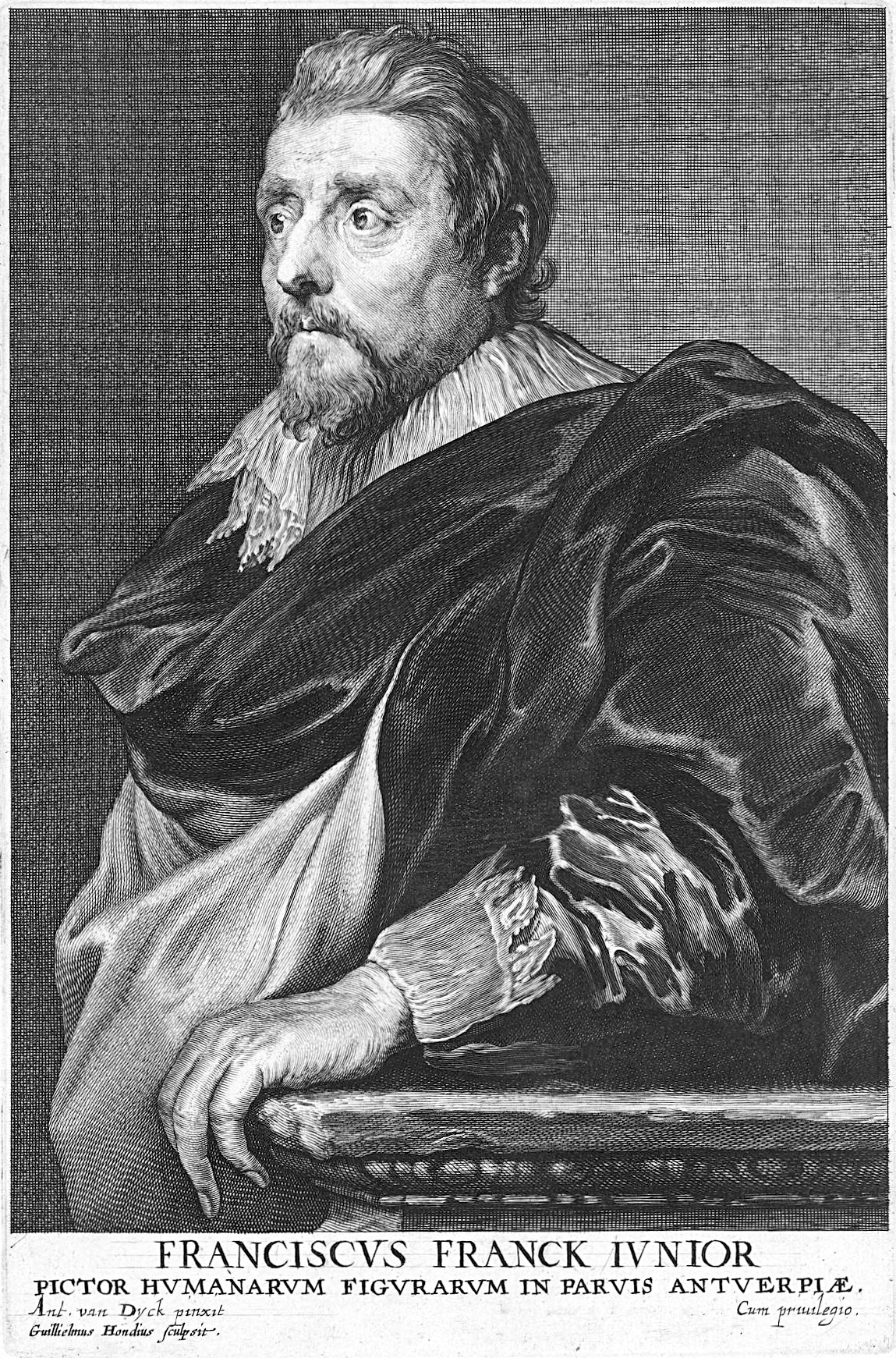 Frans Francken (II) engraving 23.4 x 15.4 cm 1608 - 1658